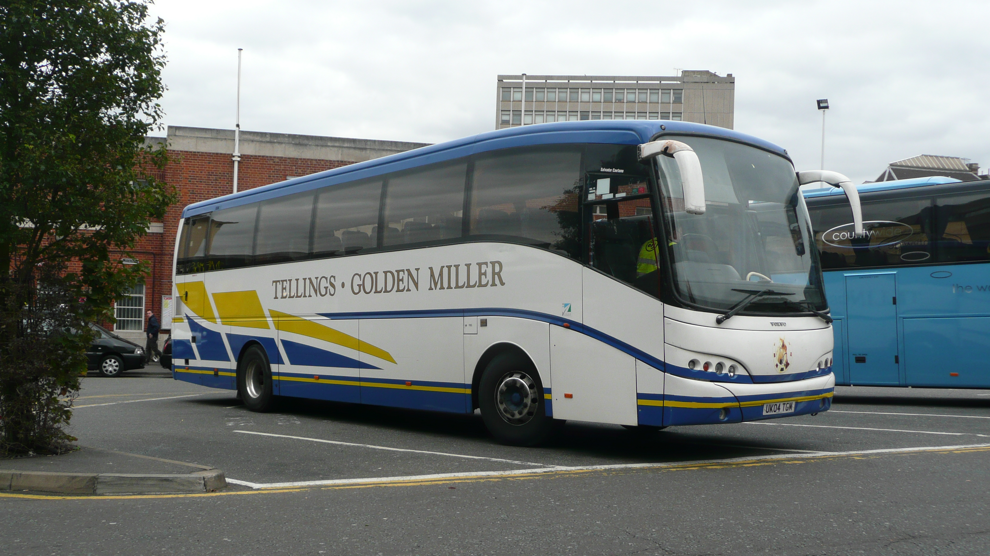 UK04 TGM, a Volvo B12B/Caetano Enigma, on the south side of Woking railway station, Station Approach, Woking, Surrey, on South West Trains rail replacement work.